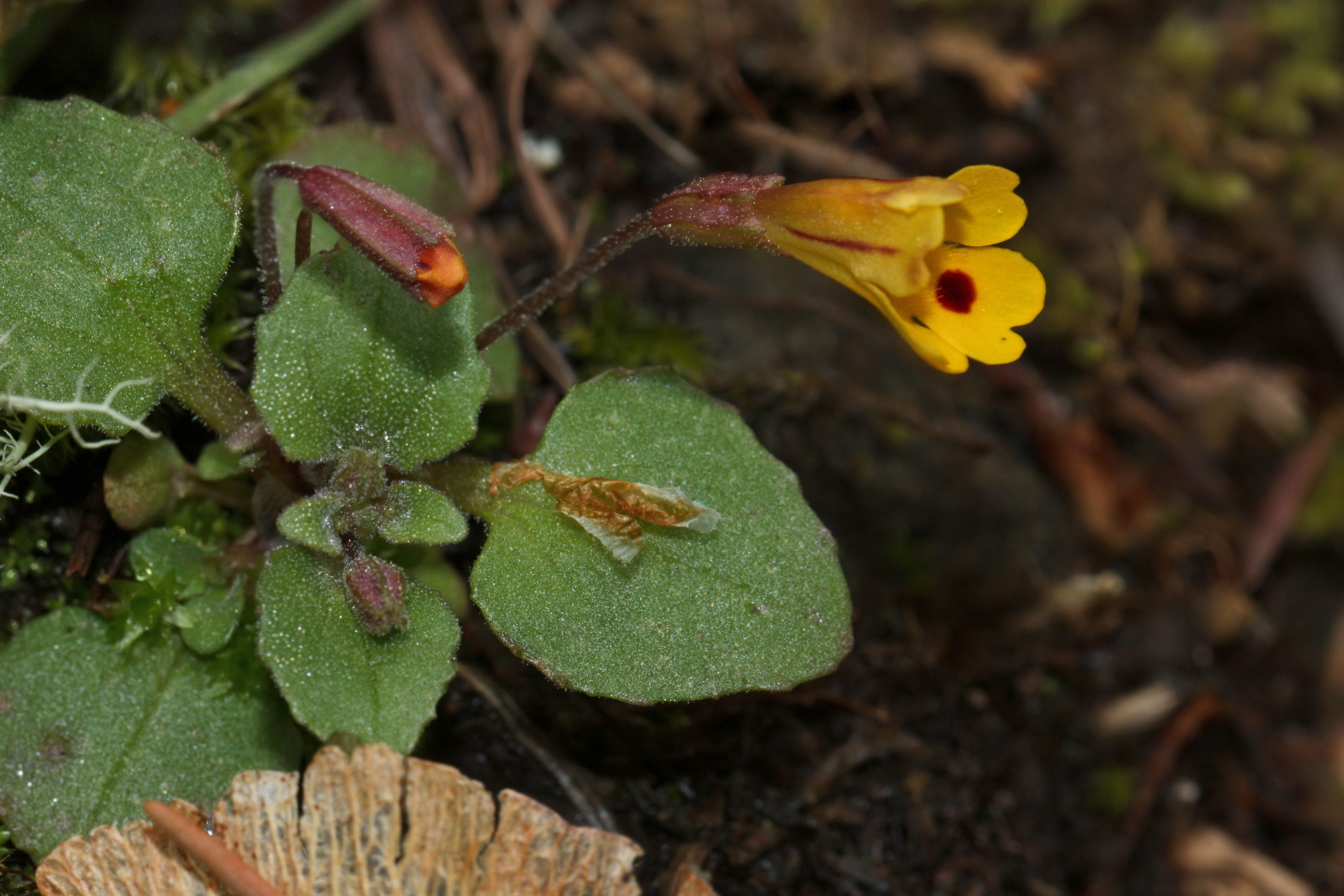 Wing-stem Monkey-flower, Chickweed Monkey-flower, photographed along the Columbia River in Oregon